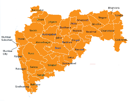 Hindu majority districts of Maharashtra.